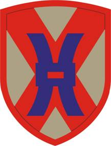 135th Sustainment Command Shoulder Sleeve Insignia